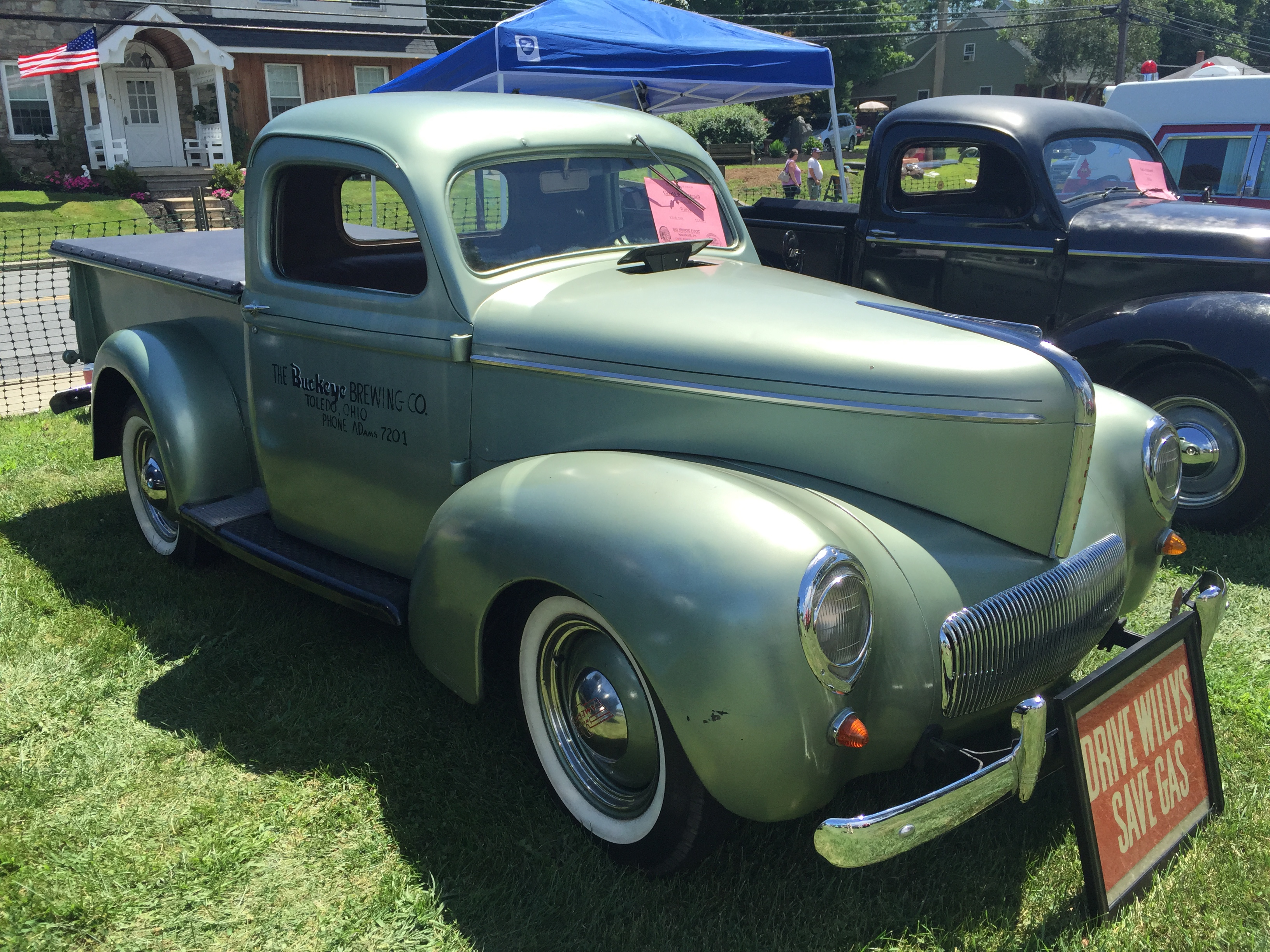 1938 Willys pickup truck, one of a line of automobiles produced by Willys-Overland Motors from 1937 to 1942. However, only the 1941 and 1942 models were called "Americar". This Willis has not been modified, customized, or butchered. Picture taken at the 52nd Annual "Das Awkscht Fescht" antique car show in Macungie, Pennsylvania.